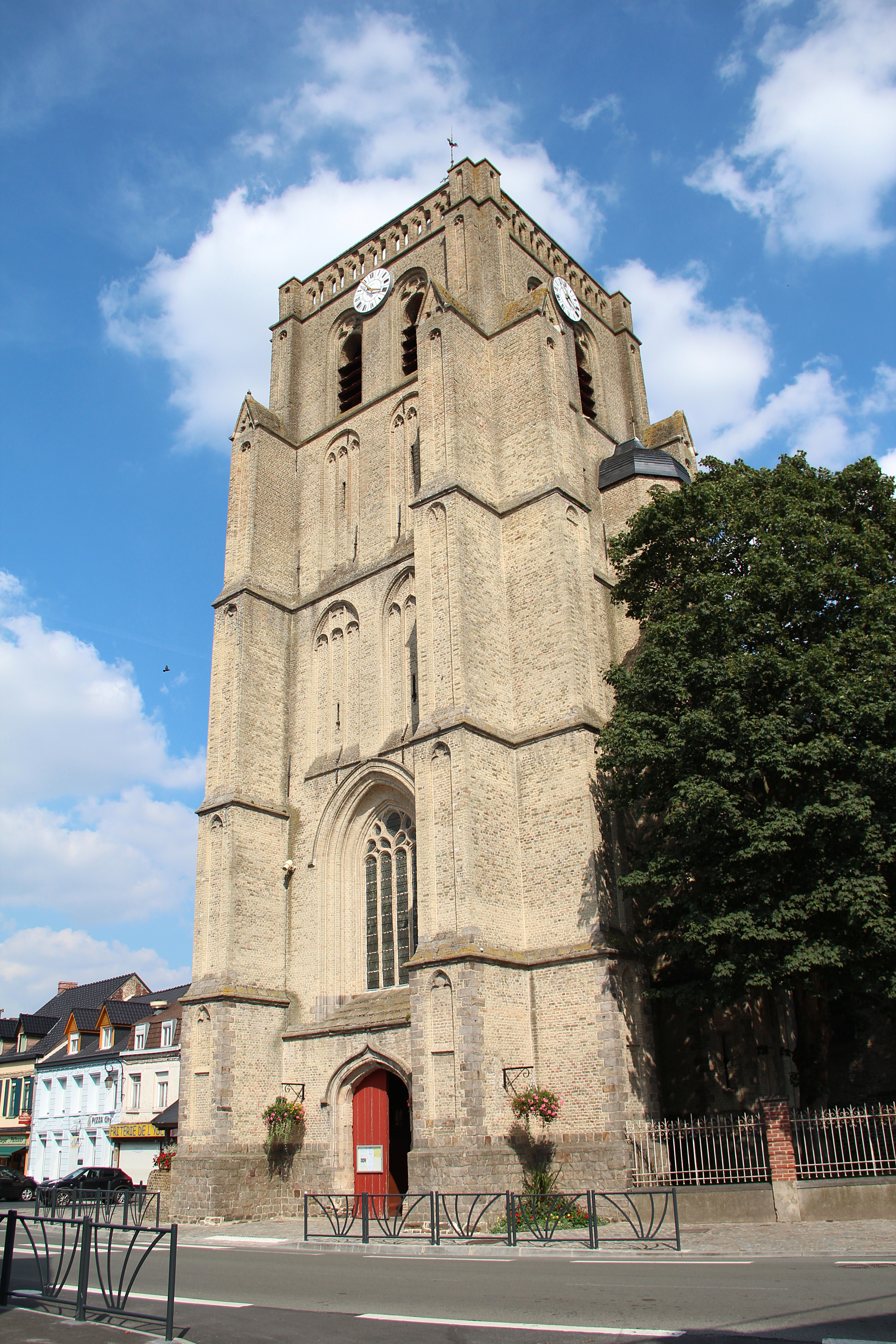 Wormhout (France), the bell tower of the Saint Martin's church (XVIth century).